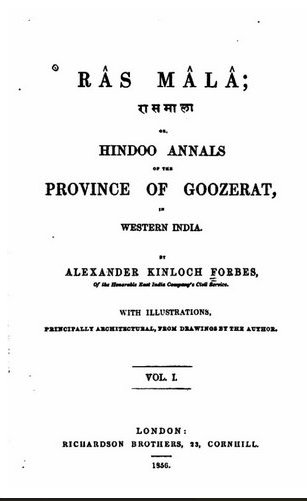 Title page of Ras Mala: Hindoo Annals of the Province of Goozerat in Western India, published in 1856 by Alexander Kinloch Forbes